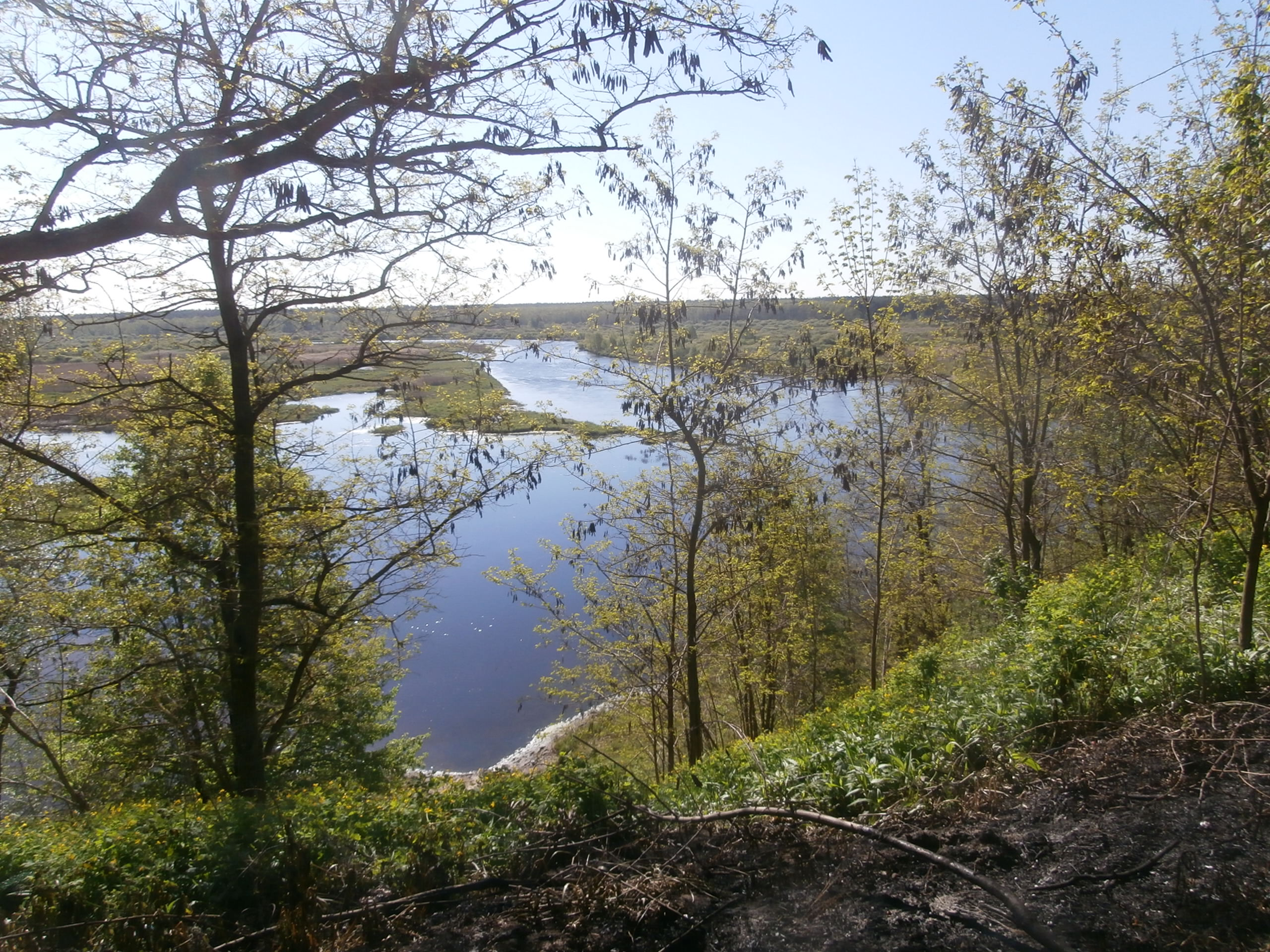 Iput River at Duby Cemetery in Dobrush 6 May 2014